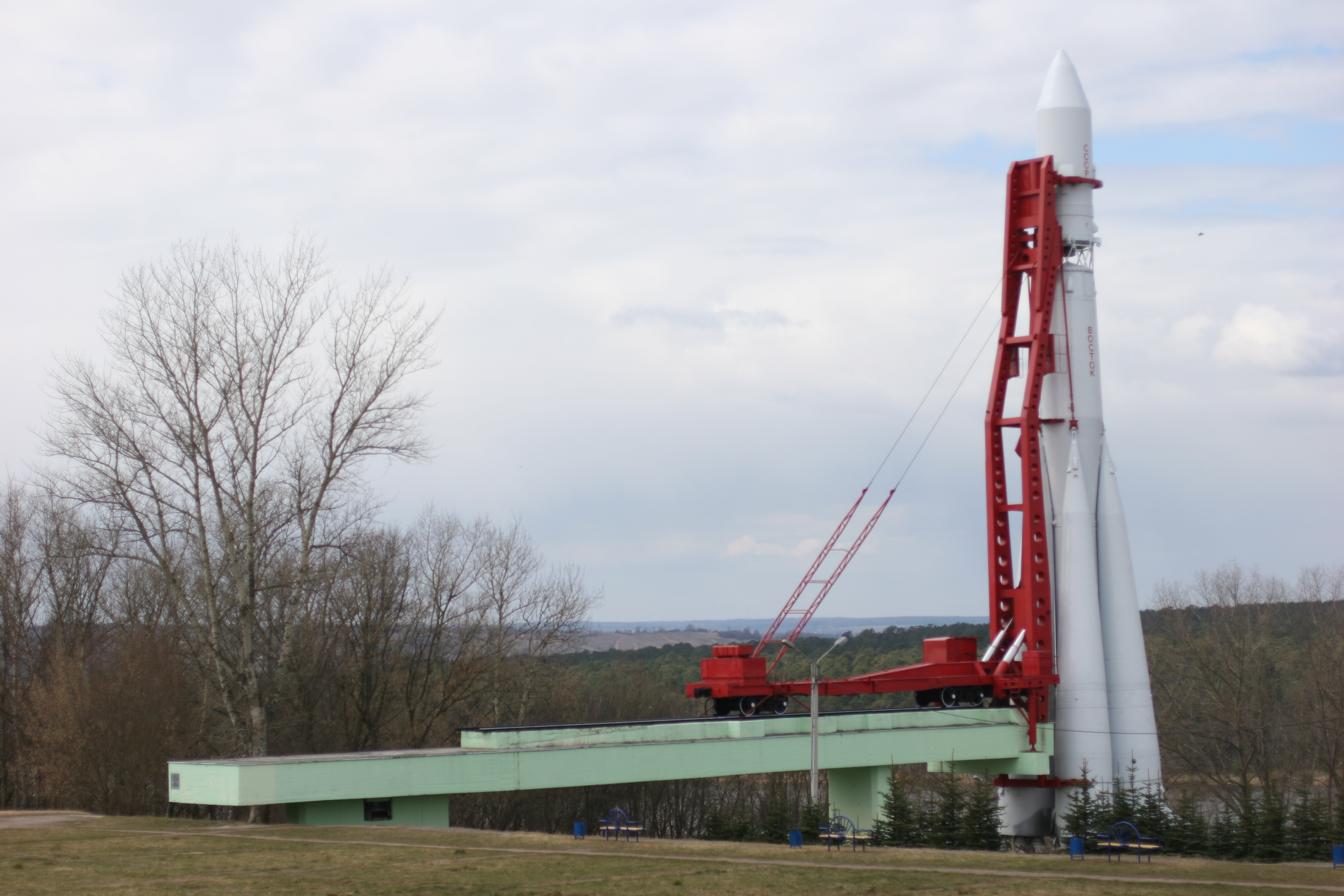 Vostok rocket on dispaly at Tsiolkovsky State Museum of the History of Cosmonautics, Kaluga